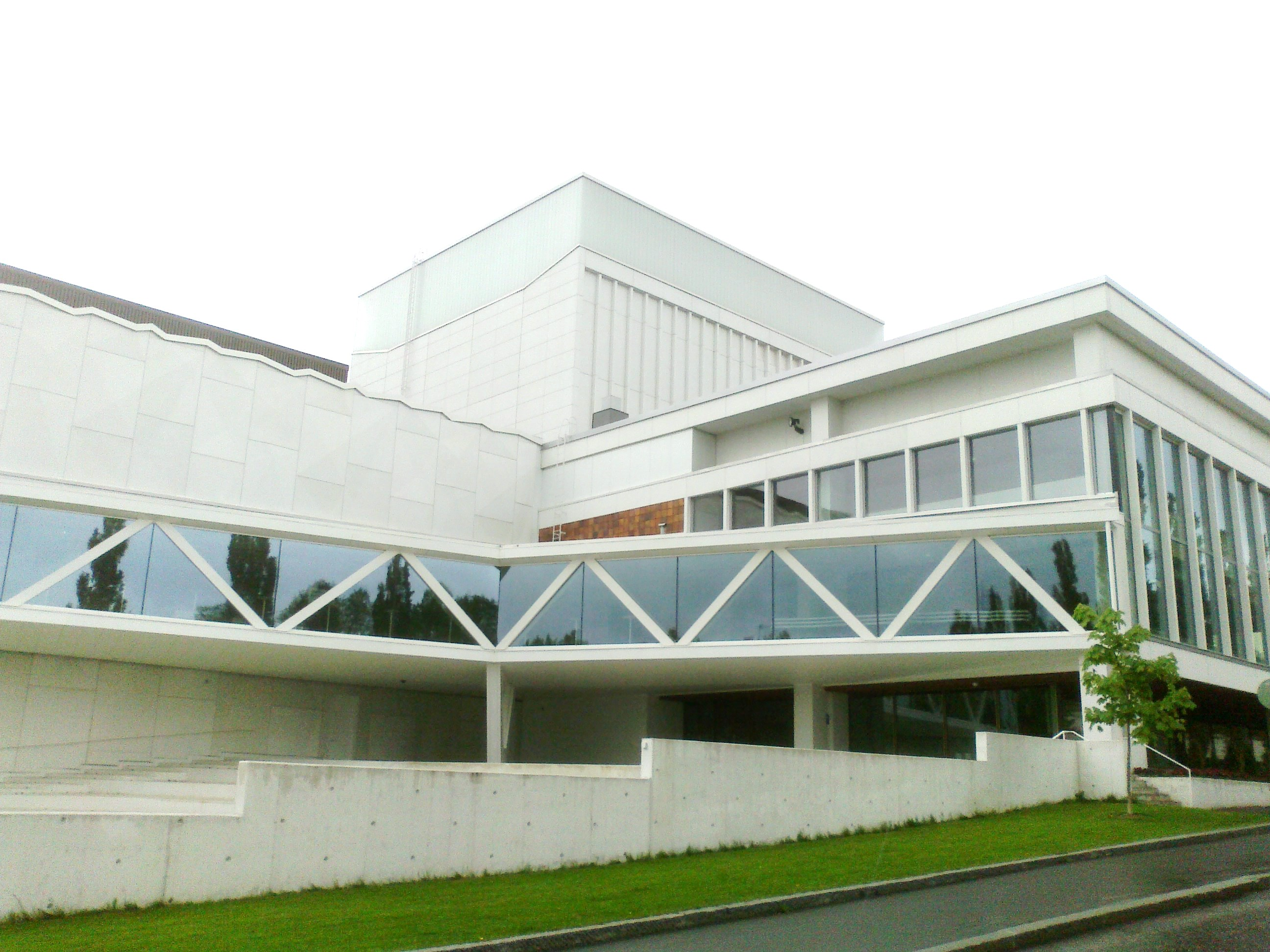 Kuopio City Theatre, Kuopio, Finland - Stages: Minna 464 seats and Maria 212 seats